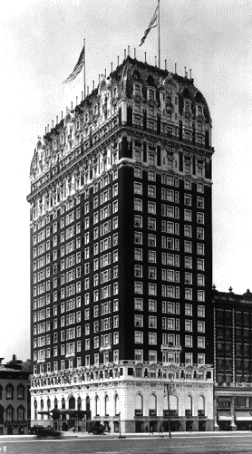 Blackstone Hotel in Chicago, Illinois, USA.